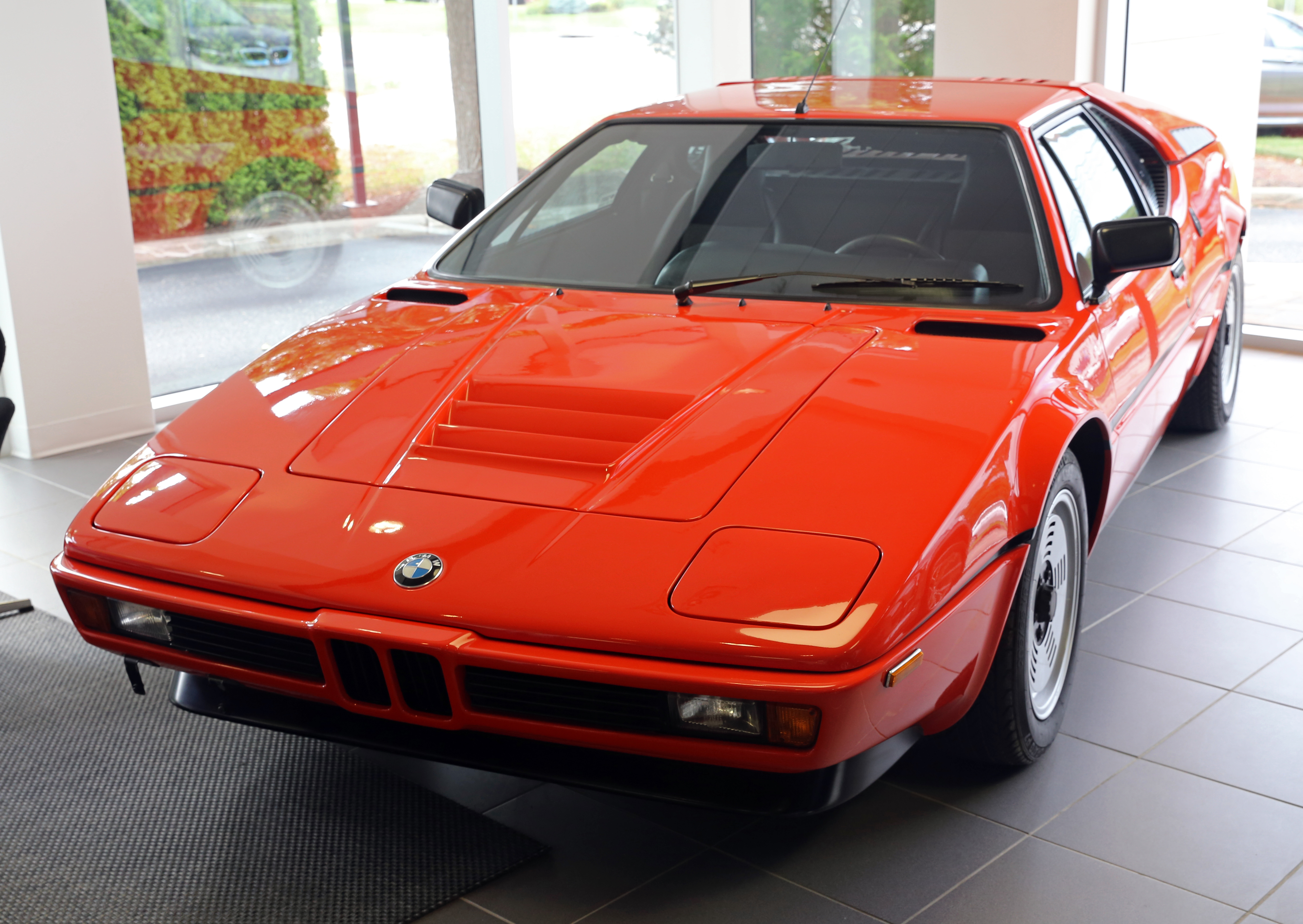 A BMW M1 on display at a BMW dealer in Southampton, NY.